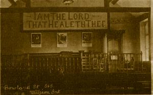 Smith and Polly Wigglesworth's mission building in Bowland Street, Bradford UK (interior)